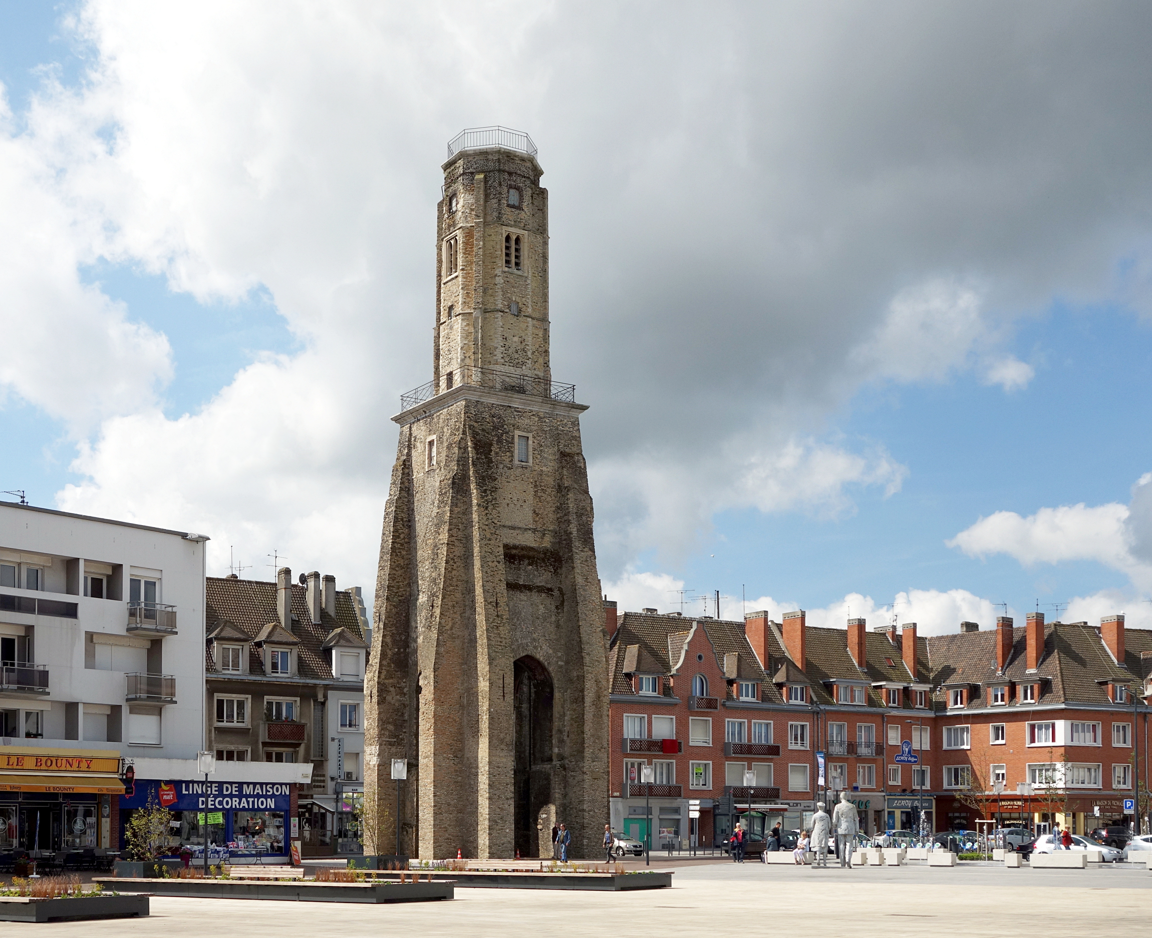 The Tour du Guet in Calais, France.